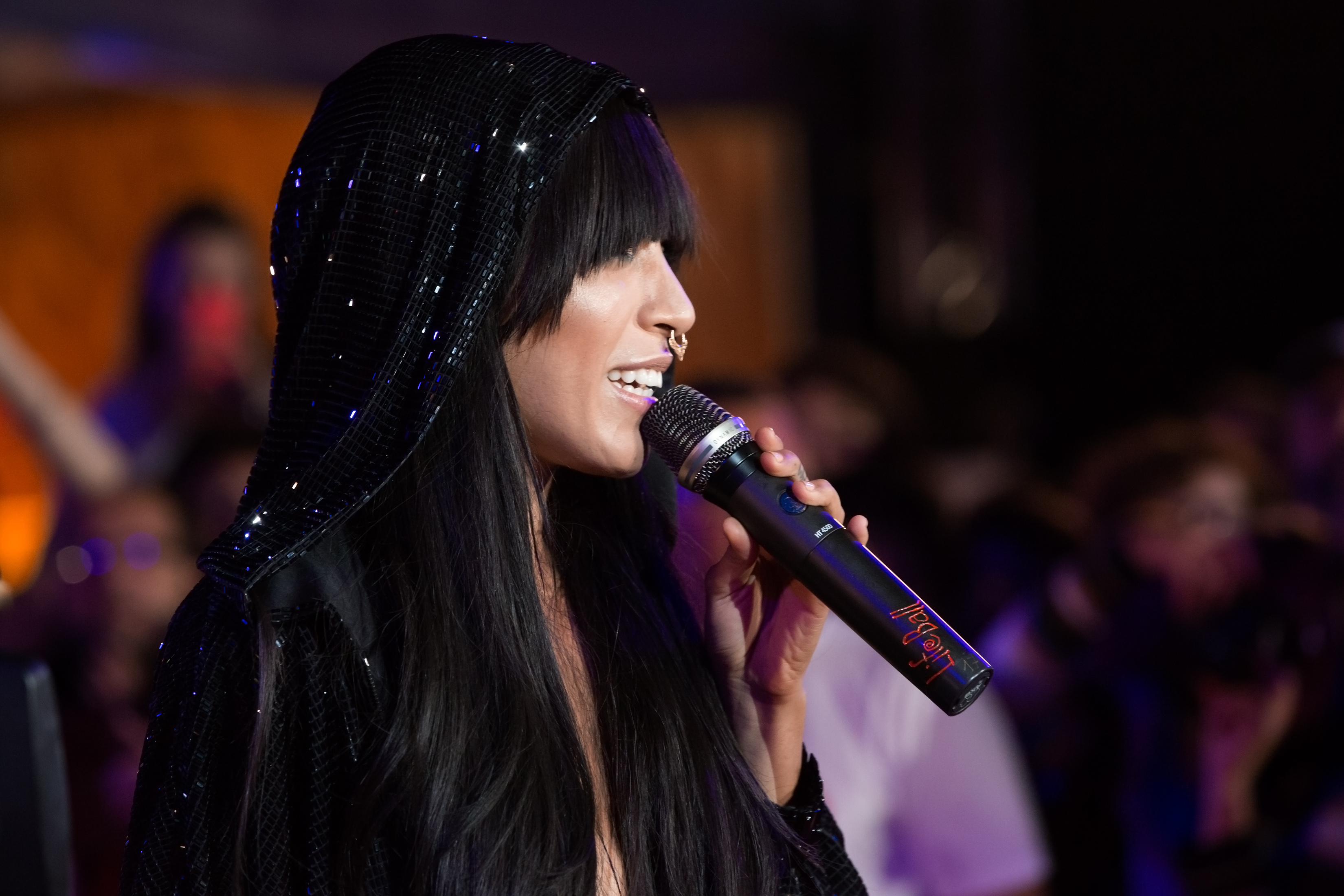 Loreen during the opening show of Life Ball 2015 at Rathausplatz in front of Rathaus (Town Hall) of Vienna, Austria).